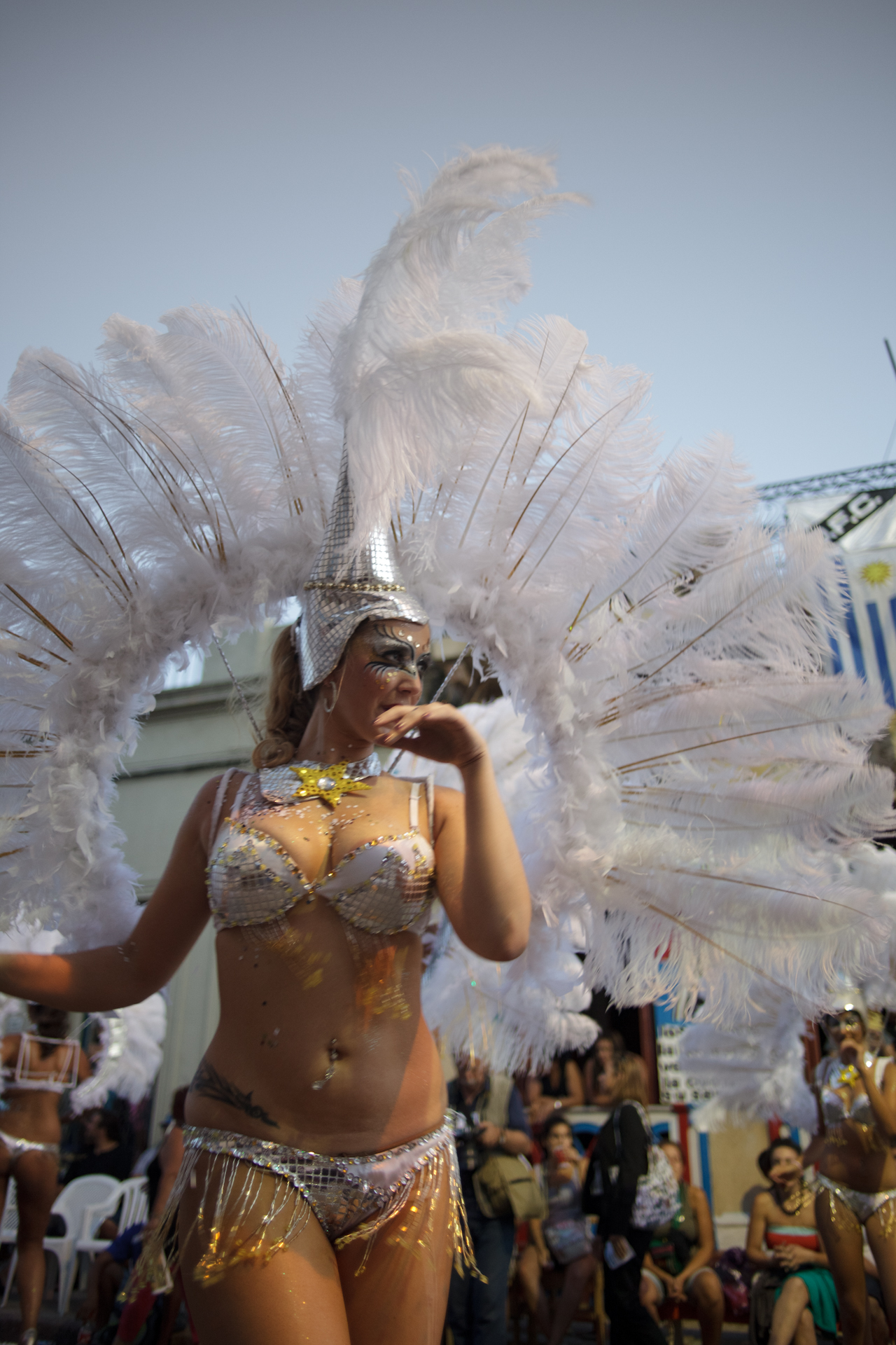 Las Llamadas, Barrio Sur y Palermo, Montevideo, Uruguay. Camera: Canon EOS 5D Mark II Lens: Zeiss Distagon T* 2/28 ZE 0 ISO: 640 Published